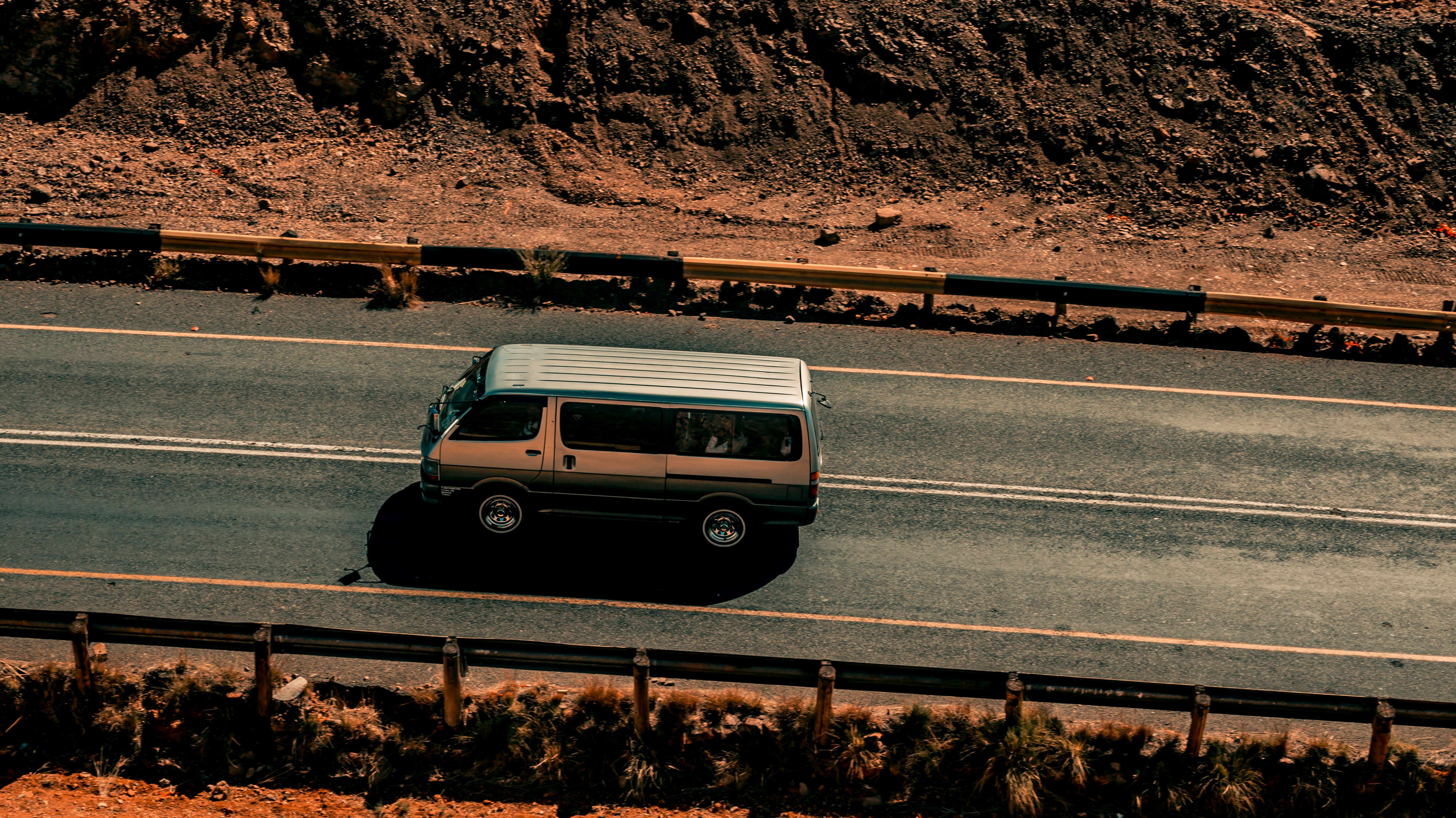 Headed to Kanye, a village in Botswana . My home village. i shot this just when i was passing by the outscirts of the village, by then i had not set foot in my village for about two years. On my way from a near by Village to Gaborone (capital city) I shot this beautiful wallpaper and kept it with me just to almost feel home. i remember taking rides on this road as a kid This is an image with the theme "Africa on the Move or Transport" from: Botswana